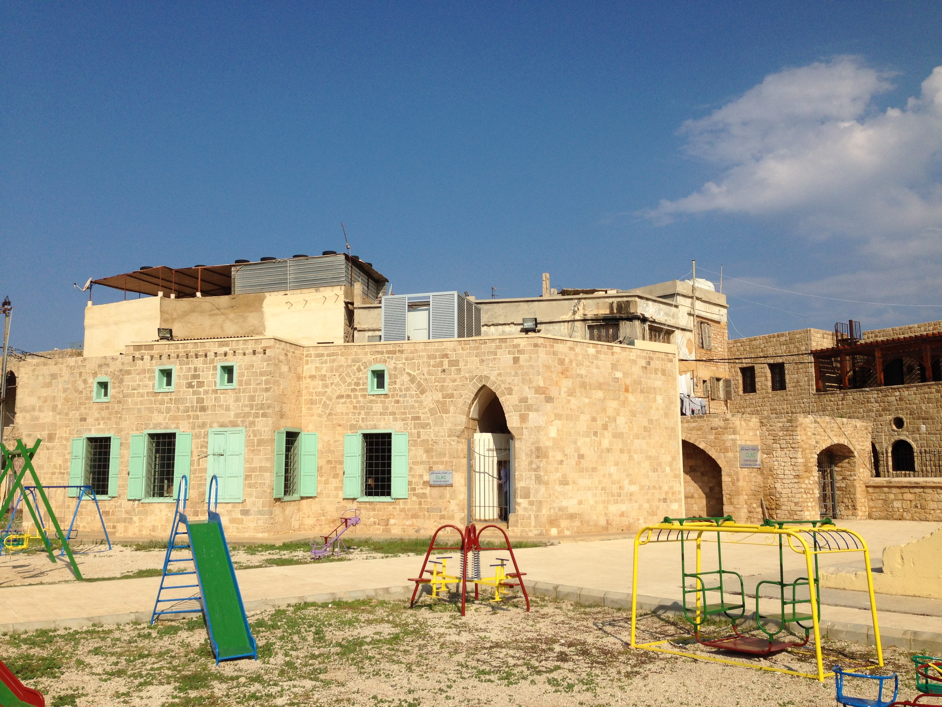 The "Centre de Lecture et d’Animation Culturelle" (C.L.A.C.) in Tyre/Sour/Tyr, Southern Lebanon, opened in 2006 by the municipality as the first public library of the city, with support from the Lebanese Ministry of Culture and the French Embassy in Beirut. It is located in the historical building of the "Beit Daoud" next to the "Beit El Medina" in the old town.